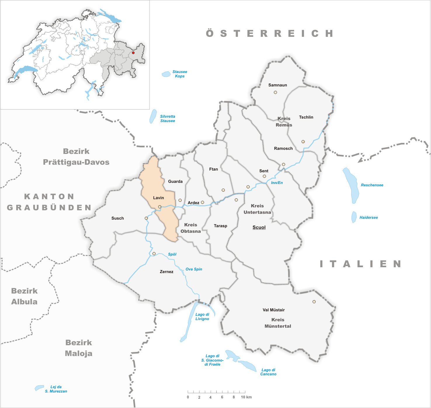 Municipality Lavin